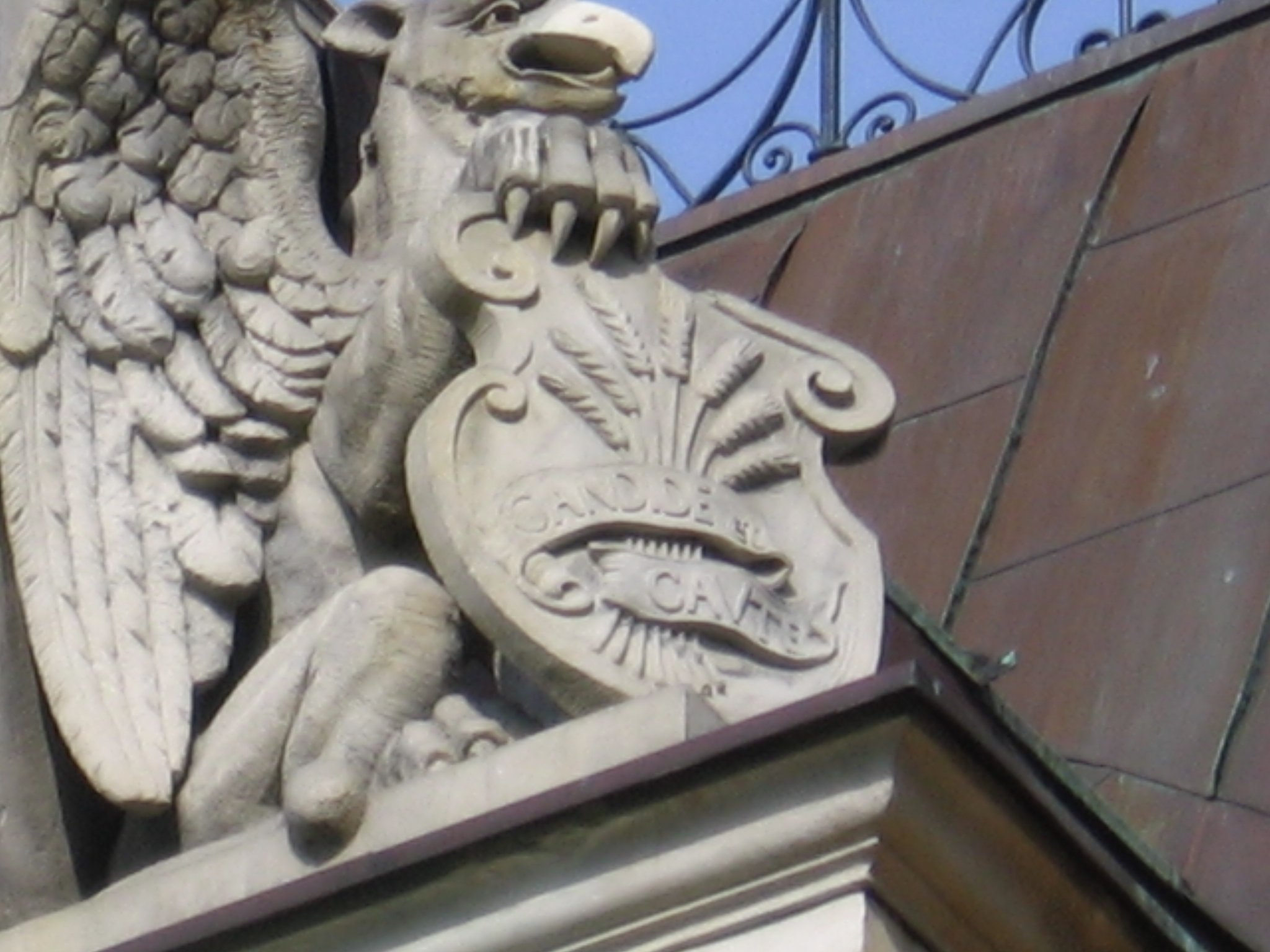 uprightly and cautiously